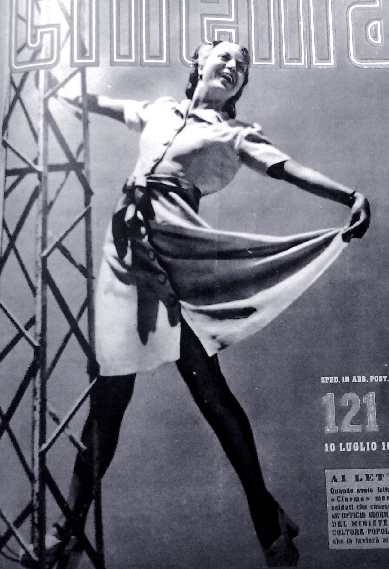 Maria Dominiani sulla copertina del numero 121 del 10 luglio 1941 di "Cinema" - prima serie